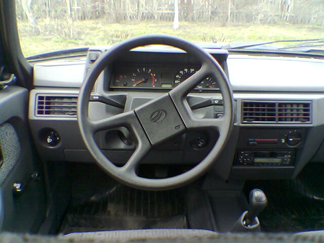 ZAZ Slavuta inside